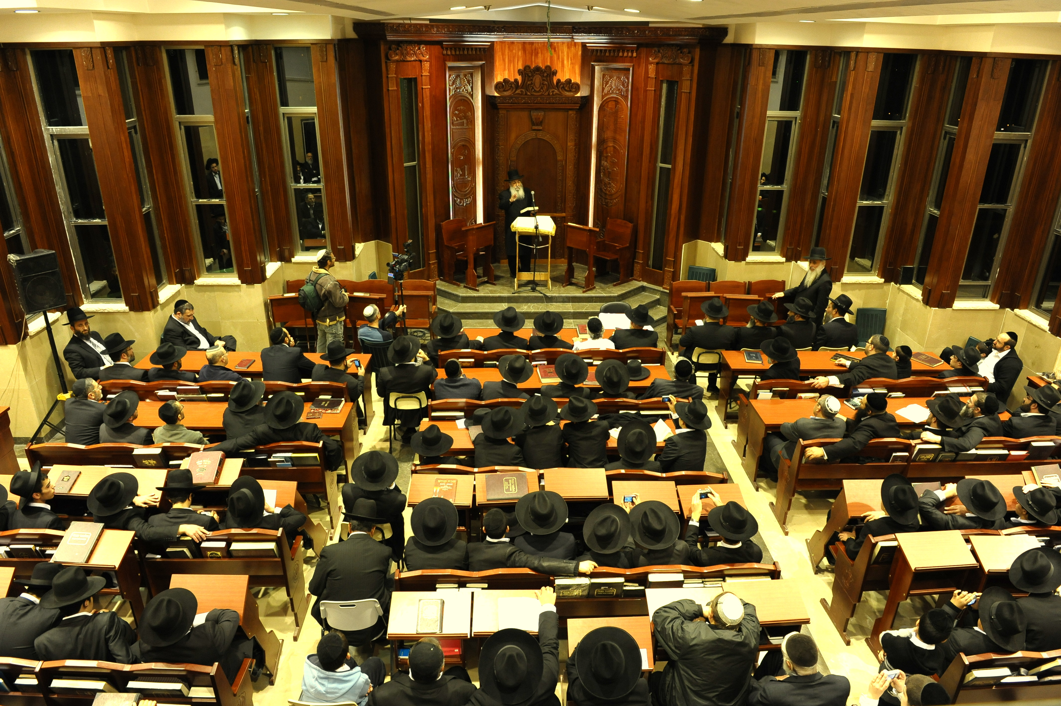 limud in the yeshiva